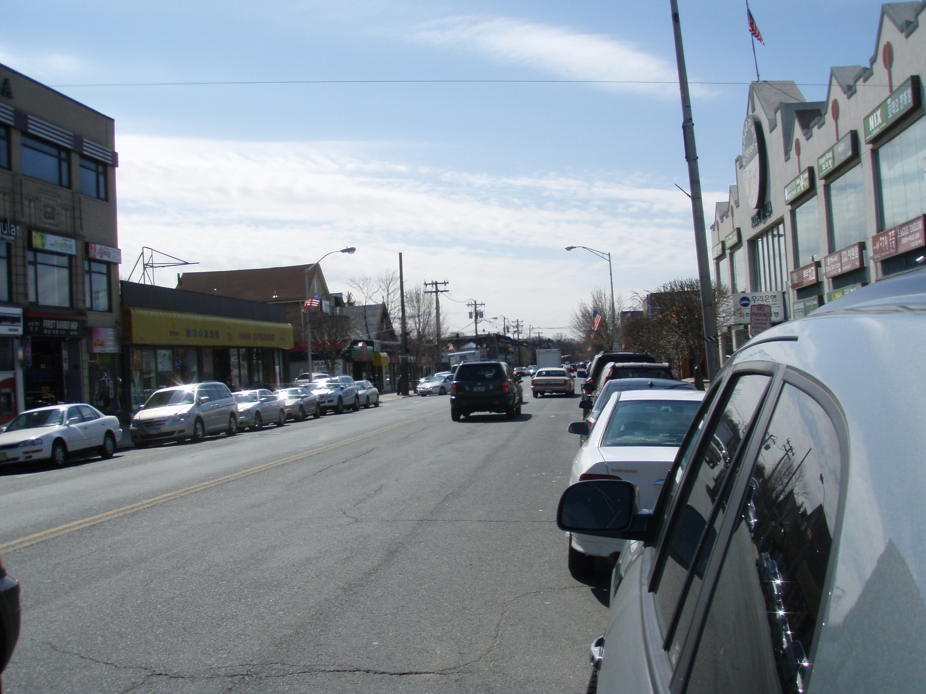 Broad Avenue at downtown Palisades Park, New Jersey